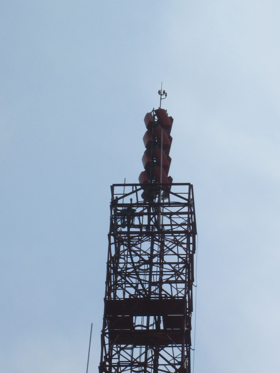 Antennas array for broadcasting Open Digital Television, installed in a tower located in El Calvario Hill, Maracay, Venezuela.